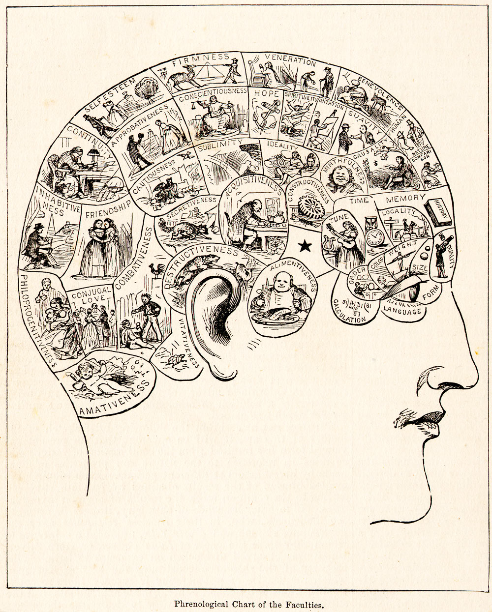 Phrenology diagram